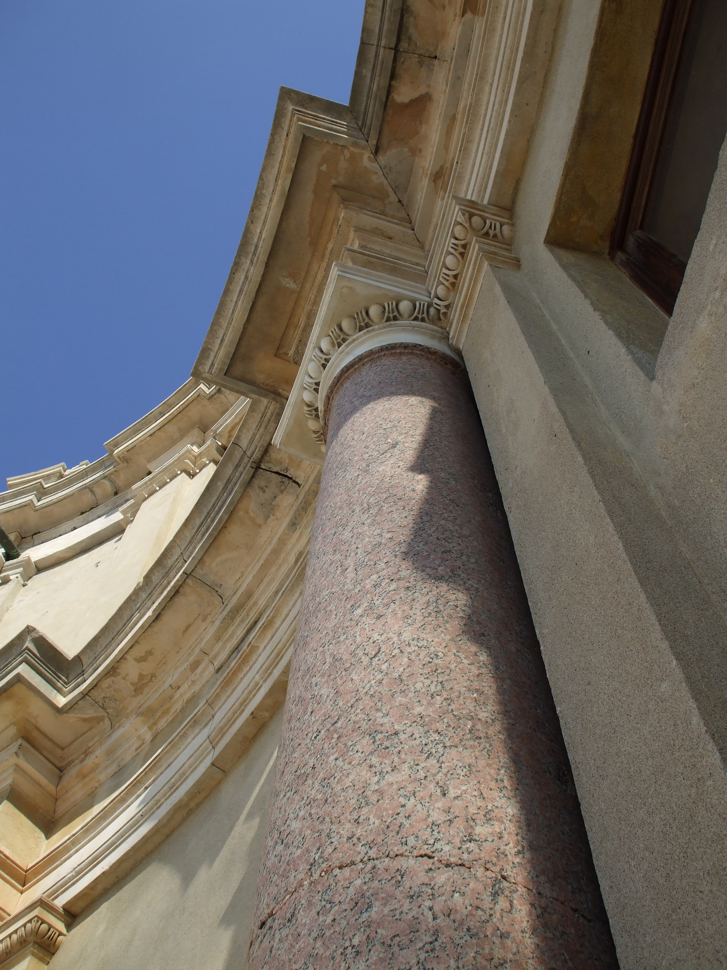 villa Farsetti's column